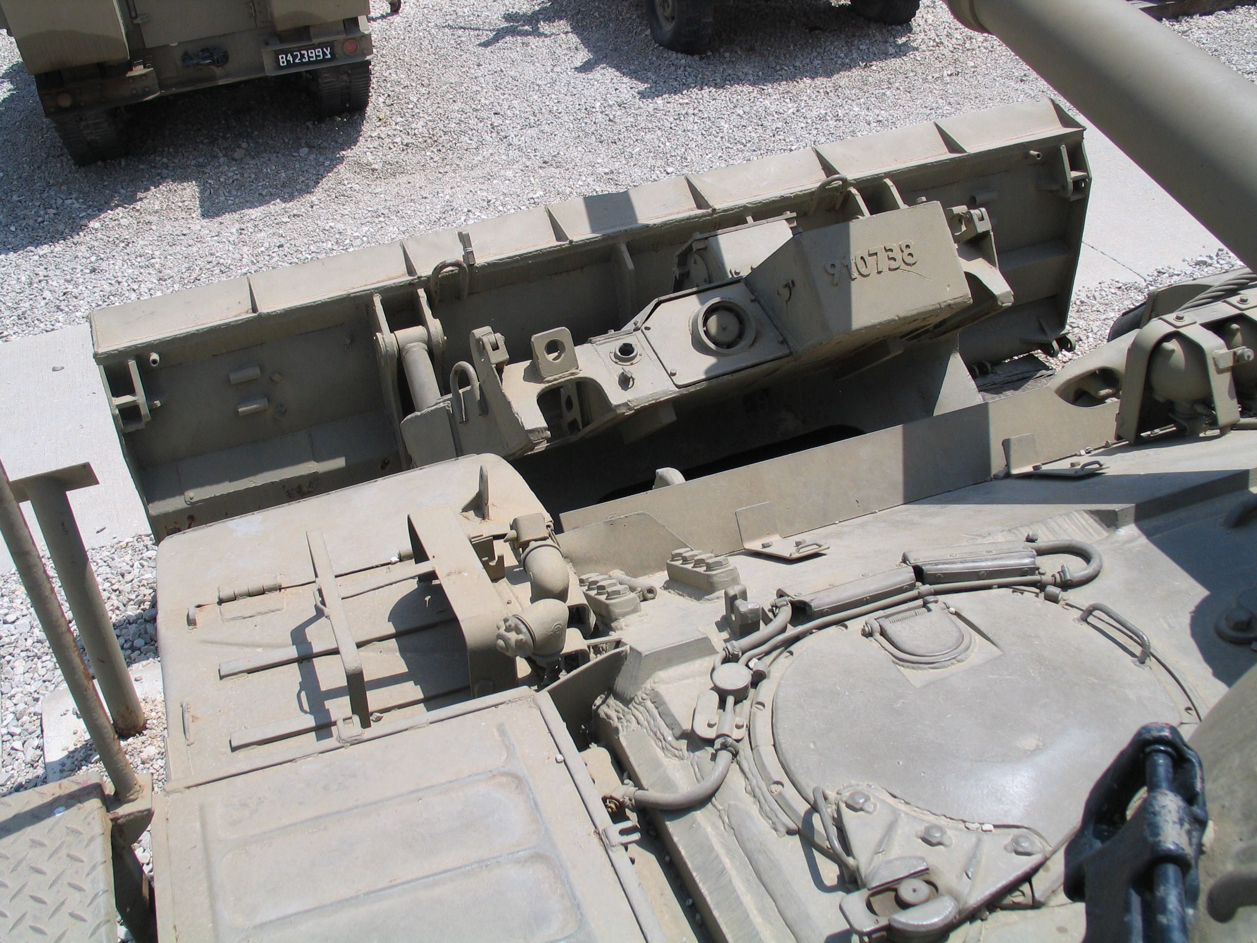 Upgraded T-55 (Tiran-5) tank with dozer blade in Yad la-Shiryon Museum, Israel.